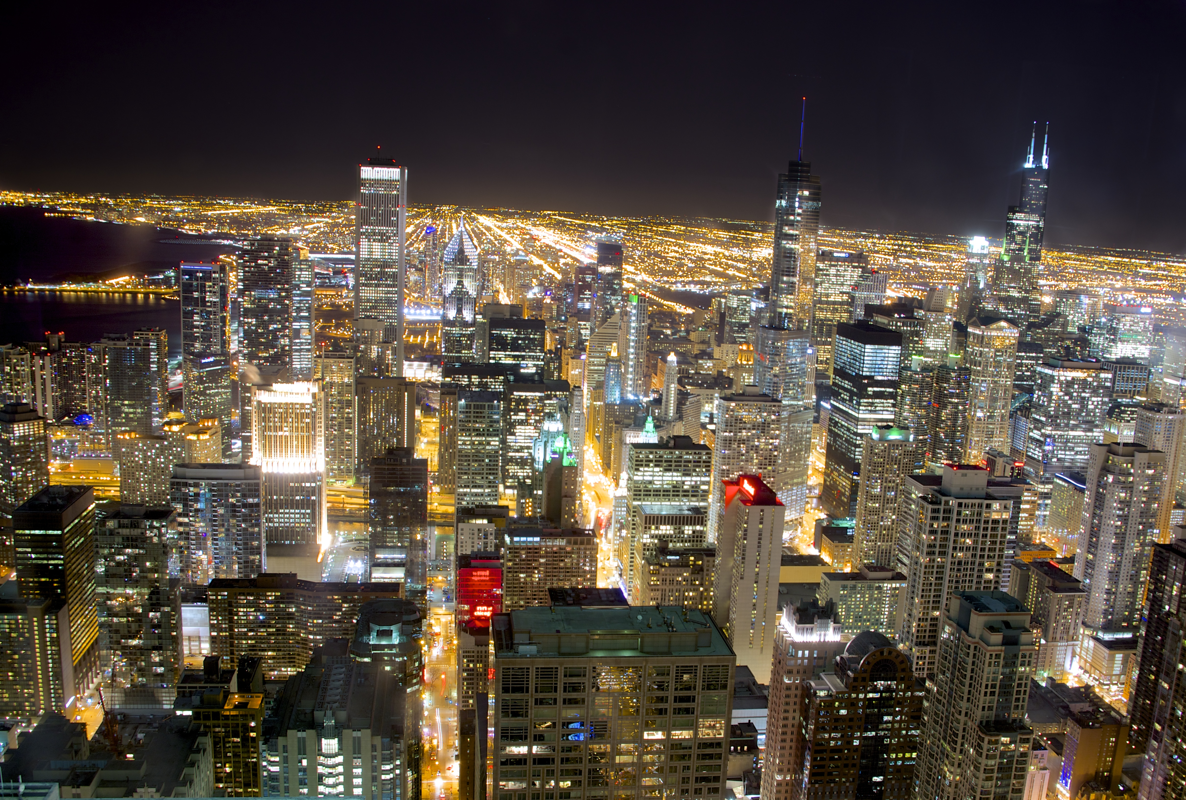 An evening shot from the Hancock Center in downtown Chicago. Since tripods aren't allowed on the observation deck I had to make do with a monopod, my camera bag and a sturdy column to lean everything against. I was happy with the results but will have to play with the images to try and get rid of some of the bleed through from the reflections, and smears on the window. Chicago received the moniker "Second City" following the city's rise from the ashes of the great fire of 1871. After four-square miles of the city's core were razed to the ground it provided a clean slate to rebuild. Albeit, at the sad cost of 100 dead and 100,000 homeless.